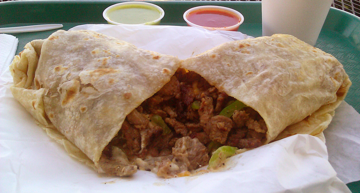 A carne asada burrito from El Patron Restaurant in Poway, California. This type of carne asada meat can be found throughout San Diego and the surrounding areas.